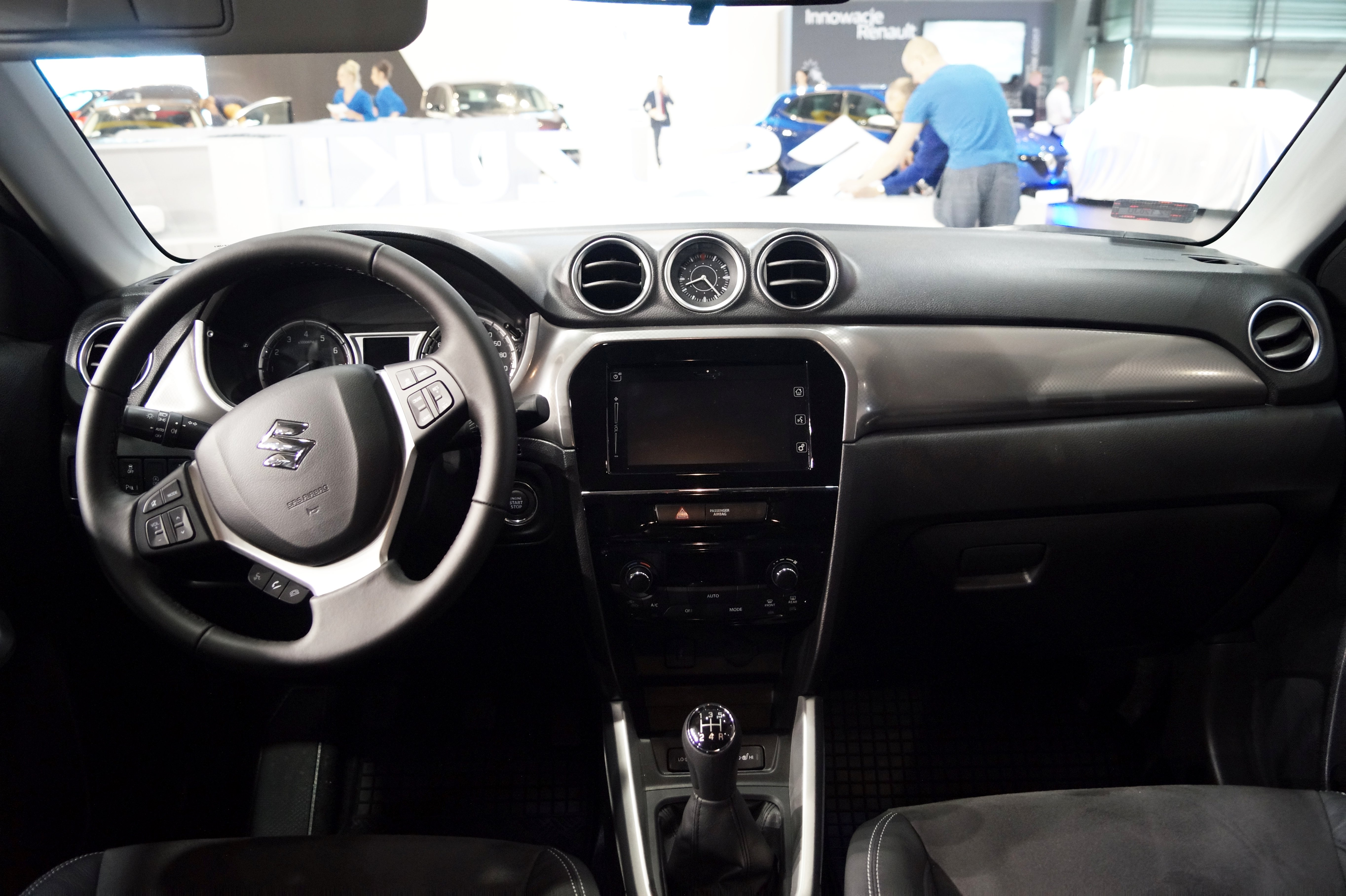 The making of this document was supported by Wikimedia Polska Association, within Wikigrant no. WG 2016-10. English | polski | +/− Wnętrze Suzuki Vitara na Motor Show Poznań 2016